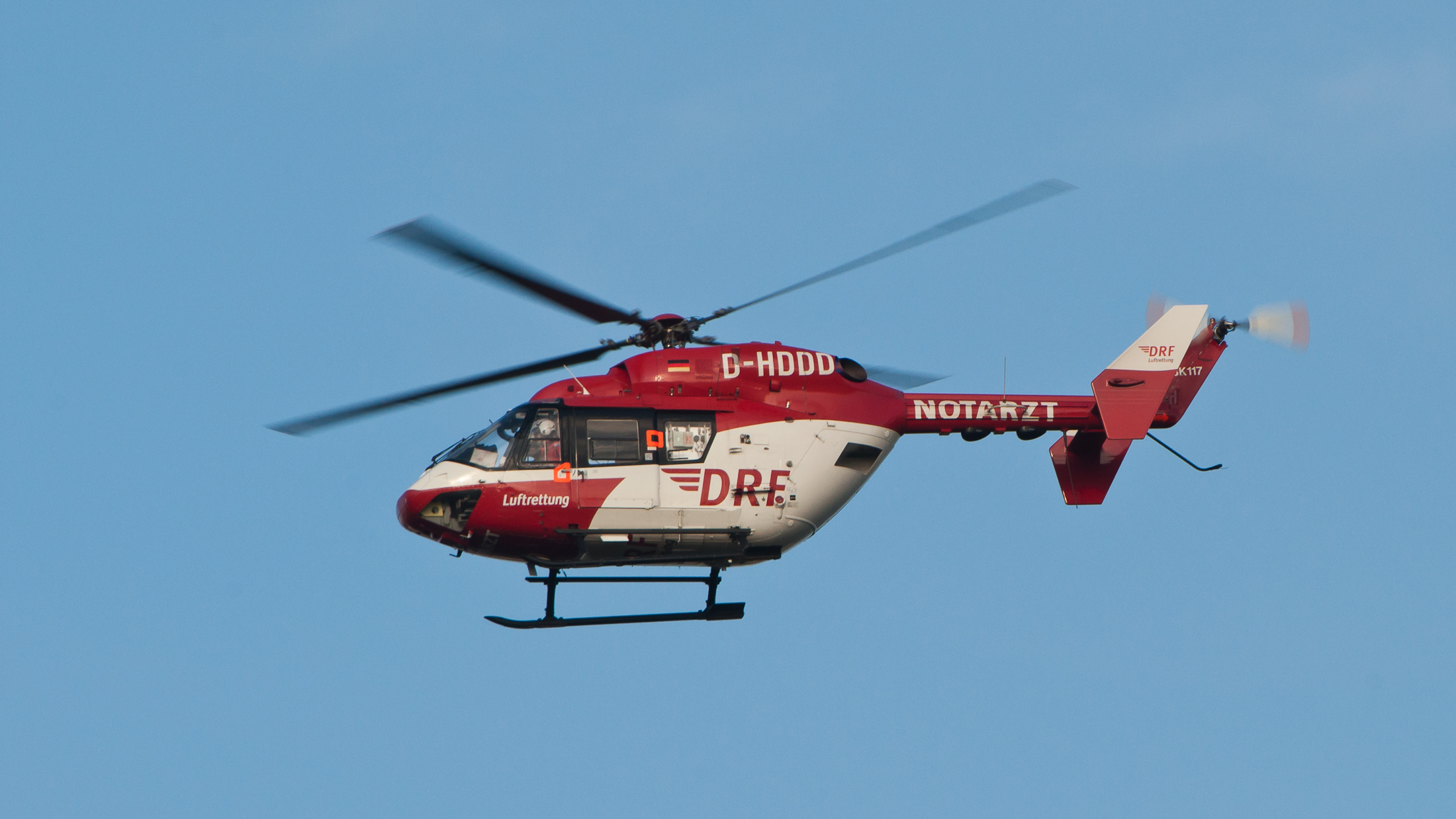 DRF MBB BK-117 (reg. D-HDDD, c/n 7164) in flight over Stuttgart.